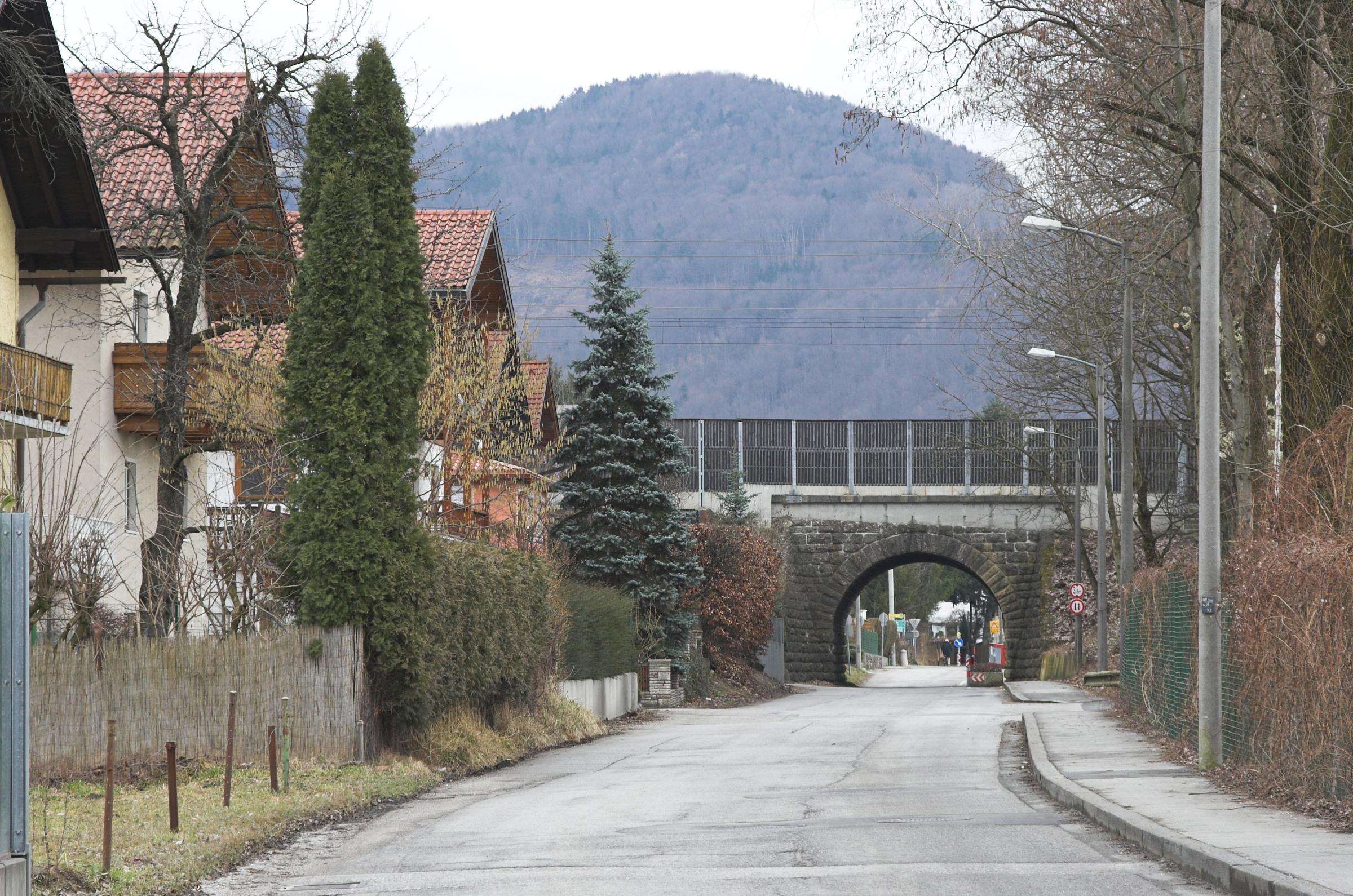 A Part of the former narrow gauge trackbed near Itzling is now in use as the Samstrasse road. The original underbridge under the standard gauge ÖBB tracks is still in use for road traffic.